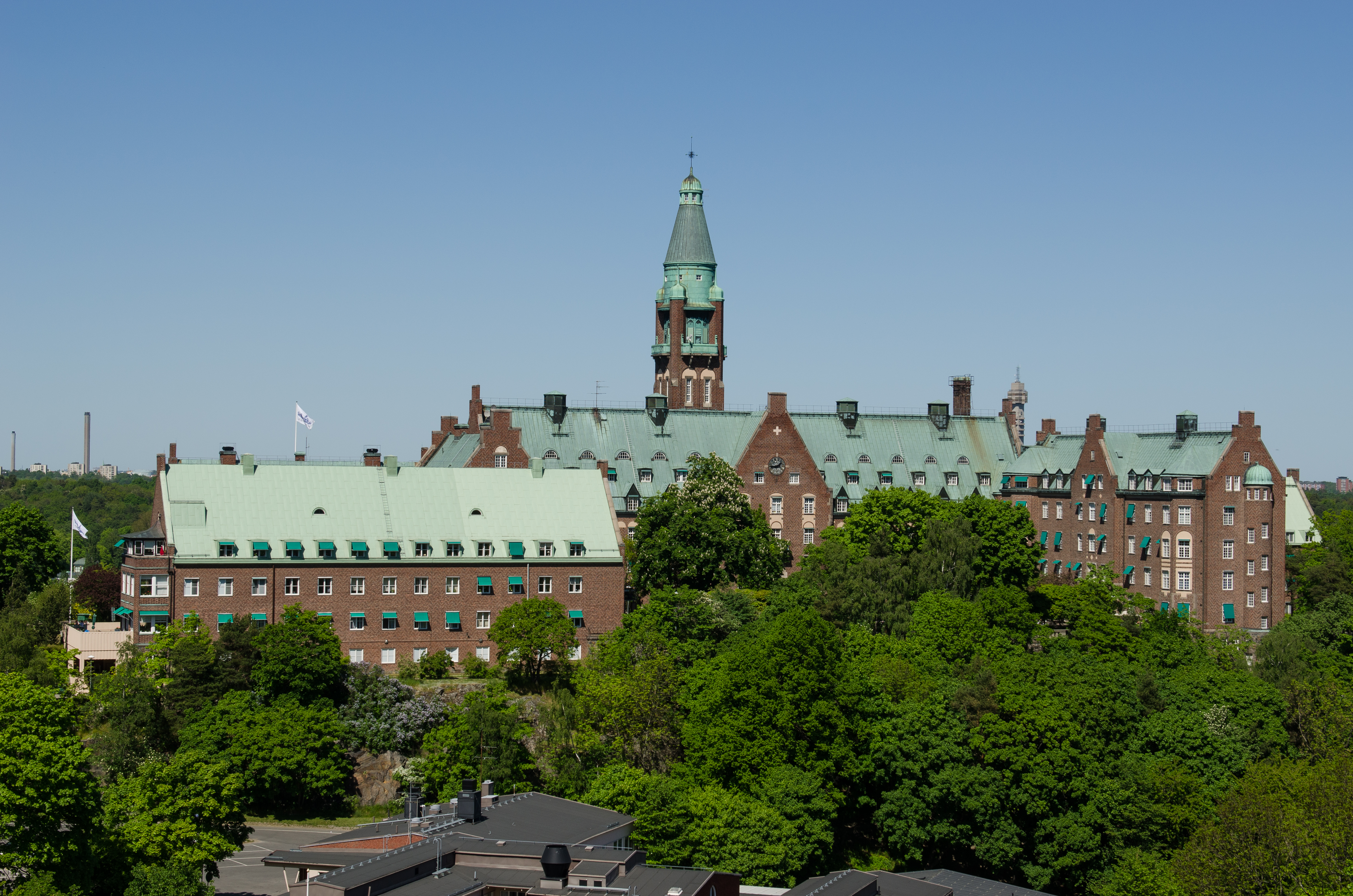 Danvikshem. Danvikshem was built between 1912 and 1915 as a retirement home. Architect: Aron Johansson. Nacka, Stockholm County, Sweden.